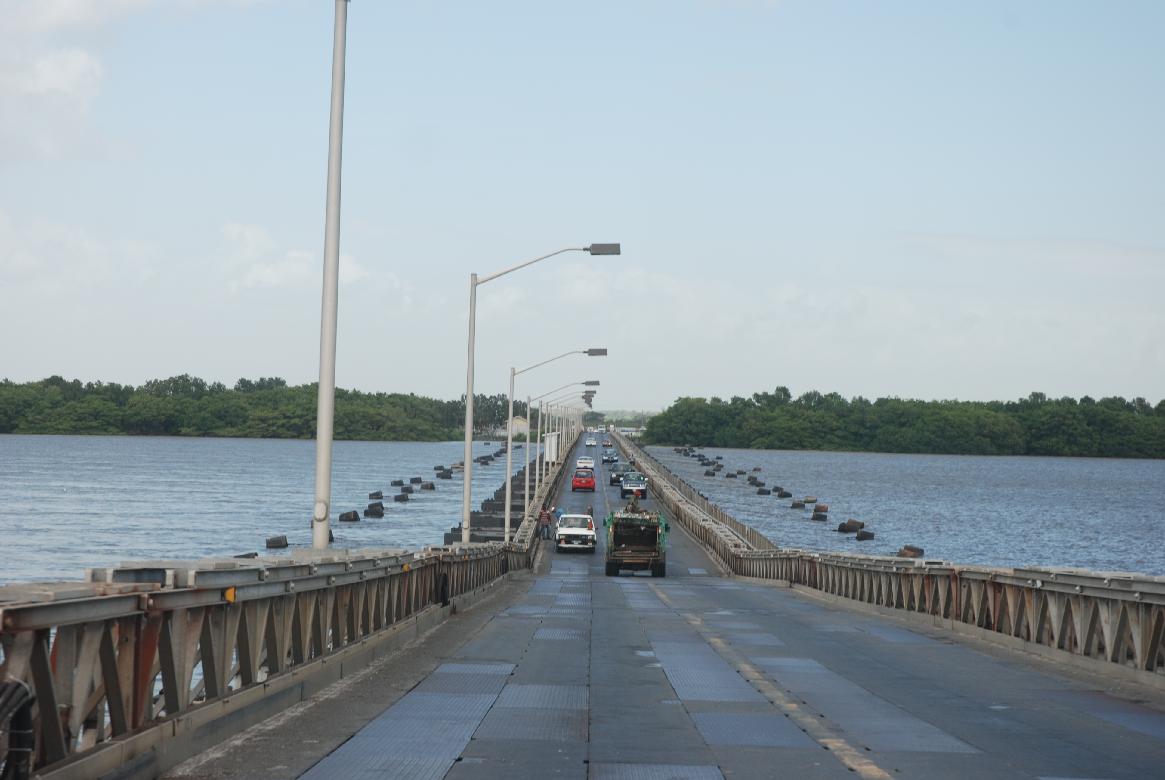 Pontoon floating bridge crossing the Demarara River in Guyana.